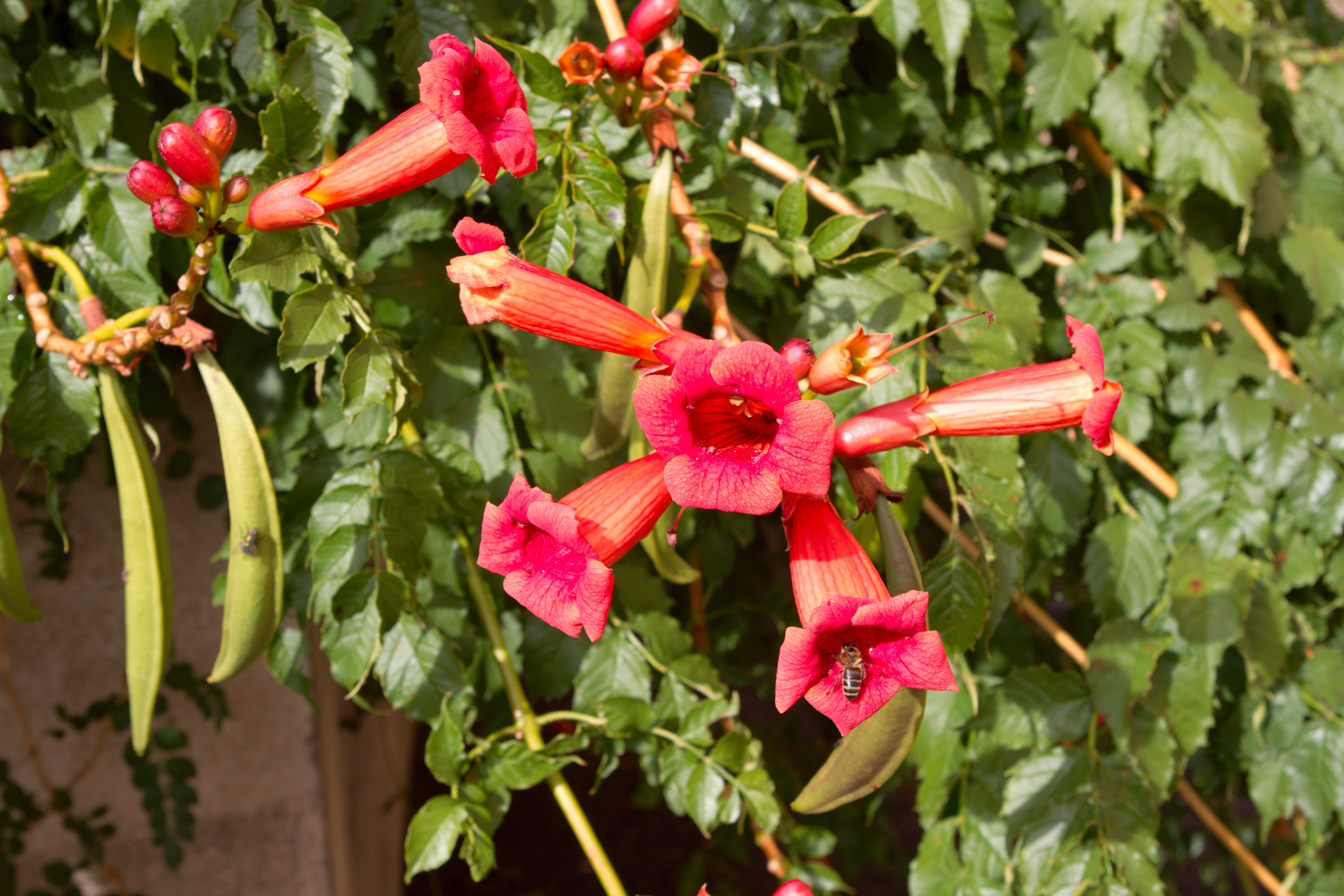 Campsis radicans in Peyrolles-en-Provence, Bouches-du-Rhône (France).